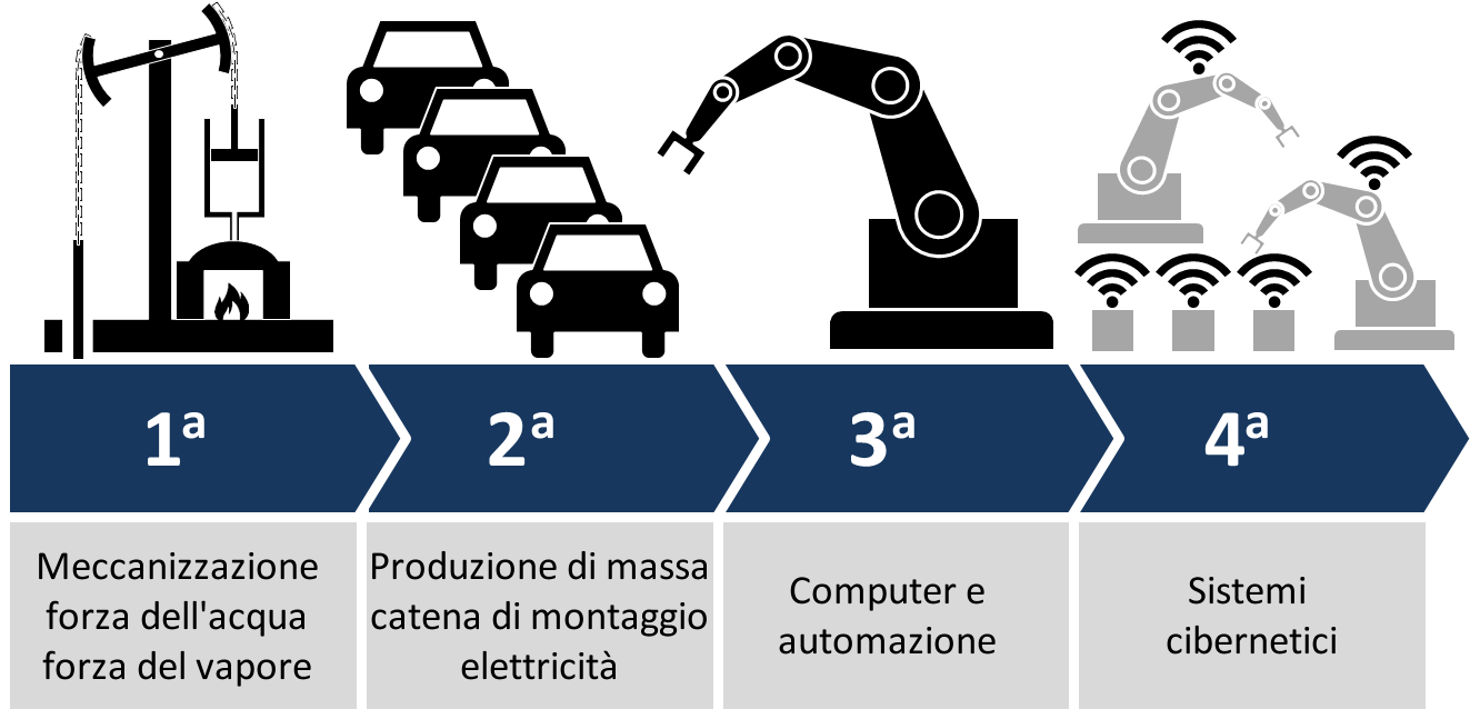 Illustration of Industry 4.0, showing the four "industrial revolutions" with a brief Italian description. See also File:Industry 4.0 NoText.png for a version without text.